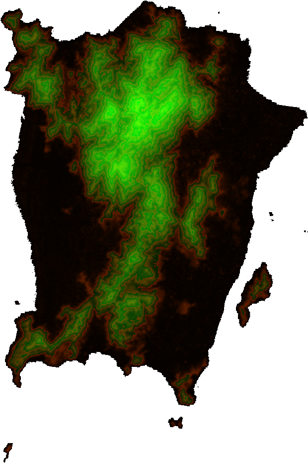 A heightmap of Penang Island and surrounding islands with contour discontinuities every 100 m, plotted from ASTER Global Digital Elevation Model data at and coloured as follows: Alpha channel: Height of 0 m (sea level) is fully transparent, otherwise fully opaque Green channel: Height normalised from 0 m (value 0) to 816 m (value 255) Red channel: Height in metres modulo 100 Blue channel: Height in metres divided by 100, then floored Hence, each point's blue value * 100 + red value gives its height in metres.